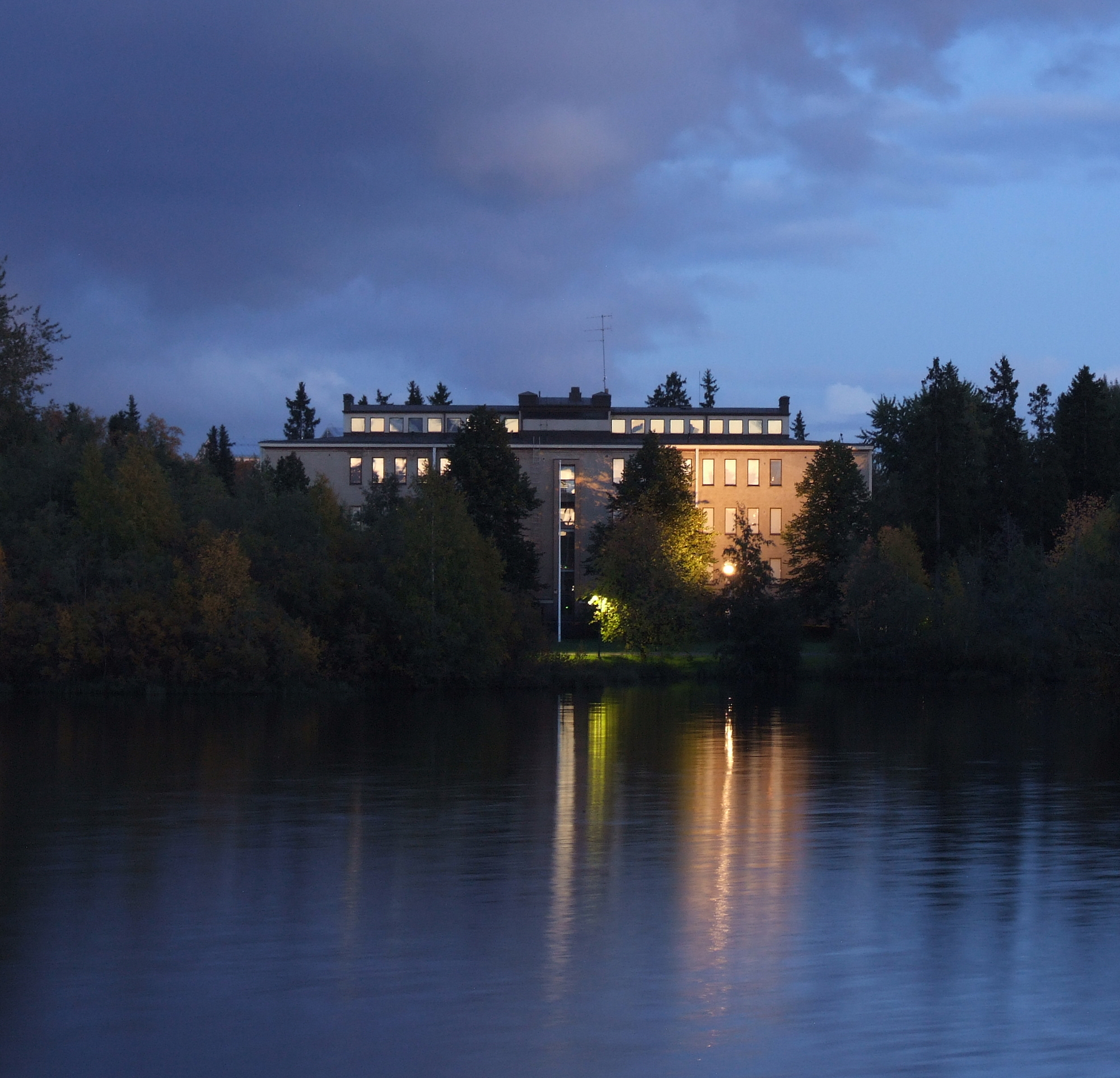 The Northern Ostrobothnia museum in the the Ainola Park in Oulu, Finland. Building has been designed by Oiva Kallio and completed in 1931.